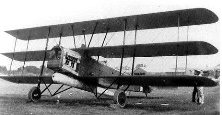 A Mitsubishi 1MT torpedo fitted (dummy?) - note the light colouring. Model Photographs Mike Hawkins via Reg Heath © 2010 Modelflight and Gary Wenko; Marusan and UPC box art courtesy of Gary Wenko; Catalogue picture © 2010 Choroszy Modelblud; Other photographs author's collection and via Gary Wenko.